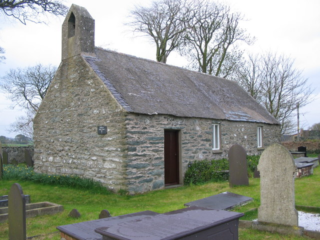 Eglwys Figel Sant A view looking northeast across the graveyard to the church of St. Figel.